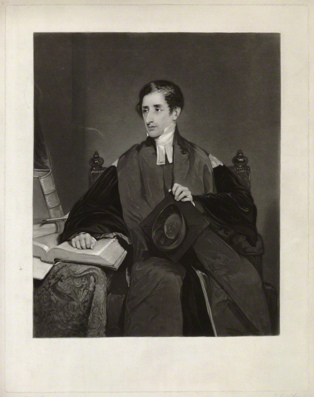 by Samuel Bellin, after Sir William Boxall, mezzotint, published 1858